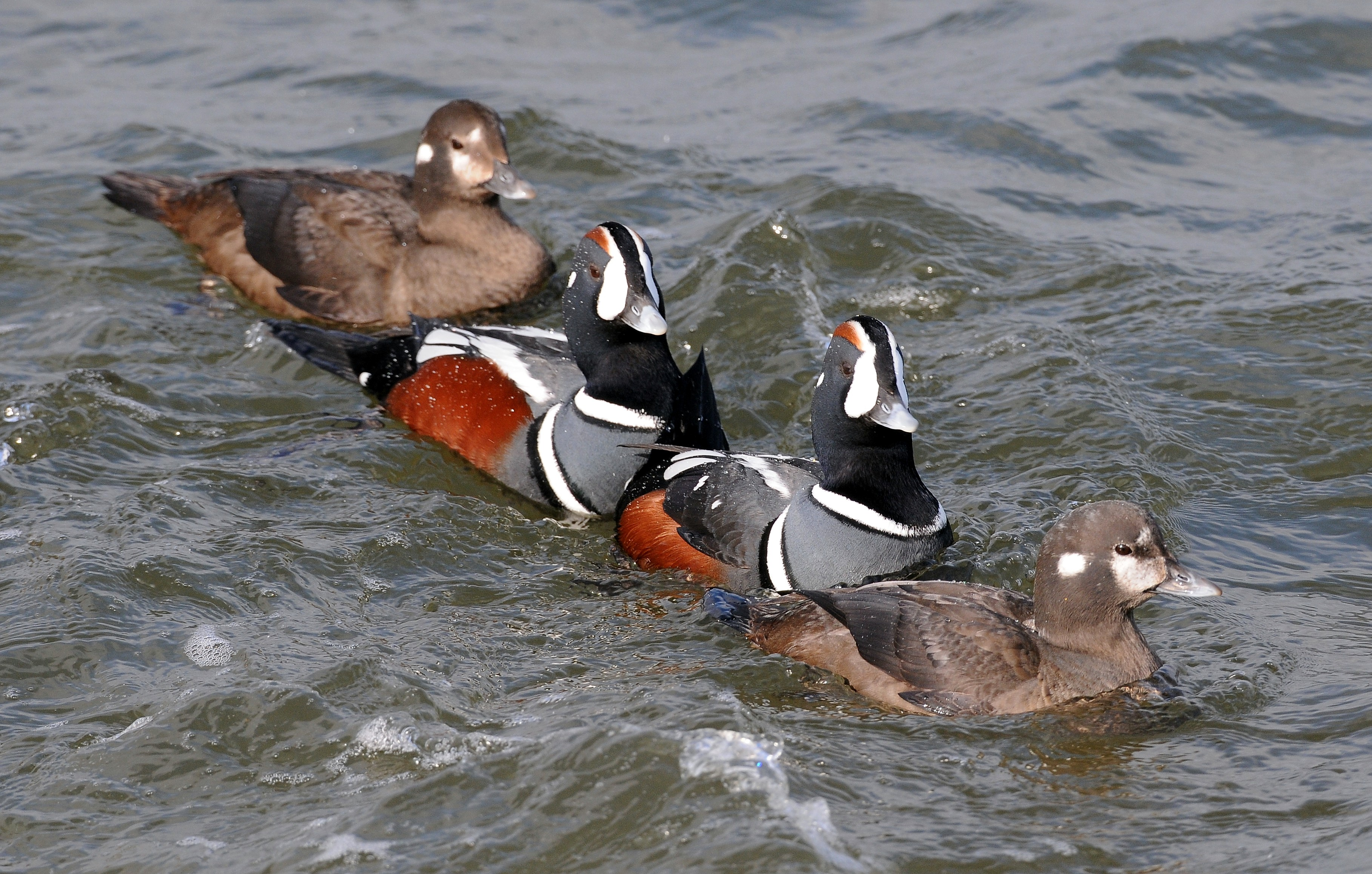 Histrionicus histrionicus, Barnegat, New Jersey, USA.